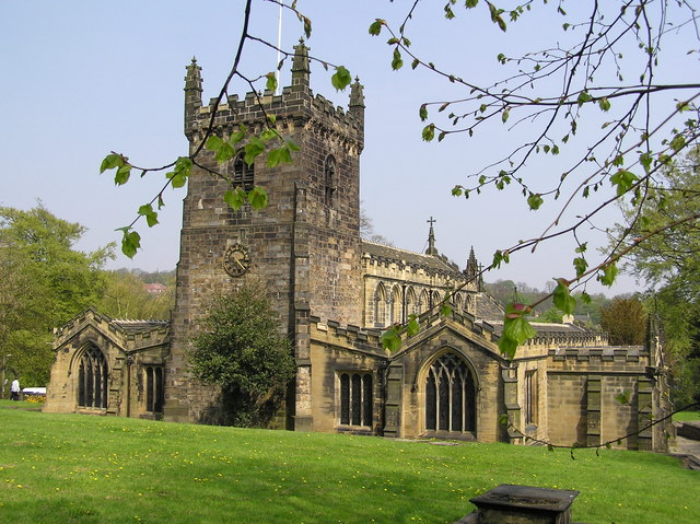 St Peter's Church, Birstall, Yorkshire.